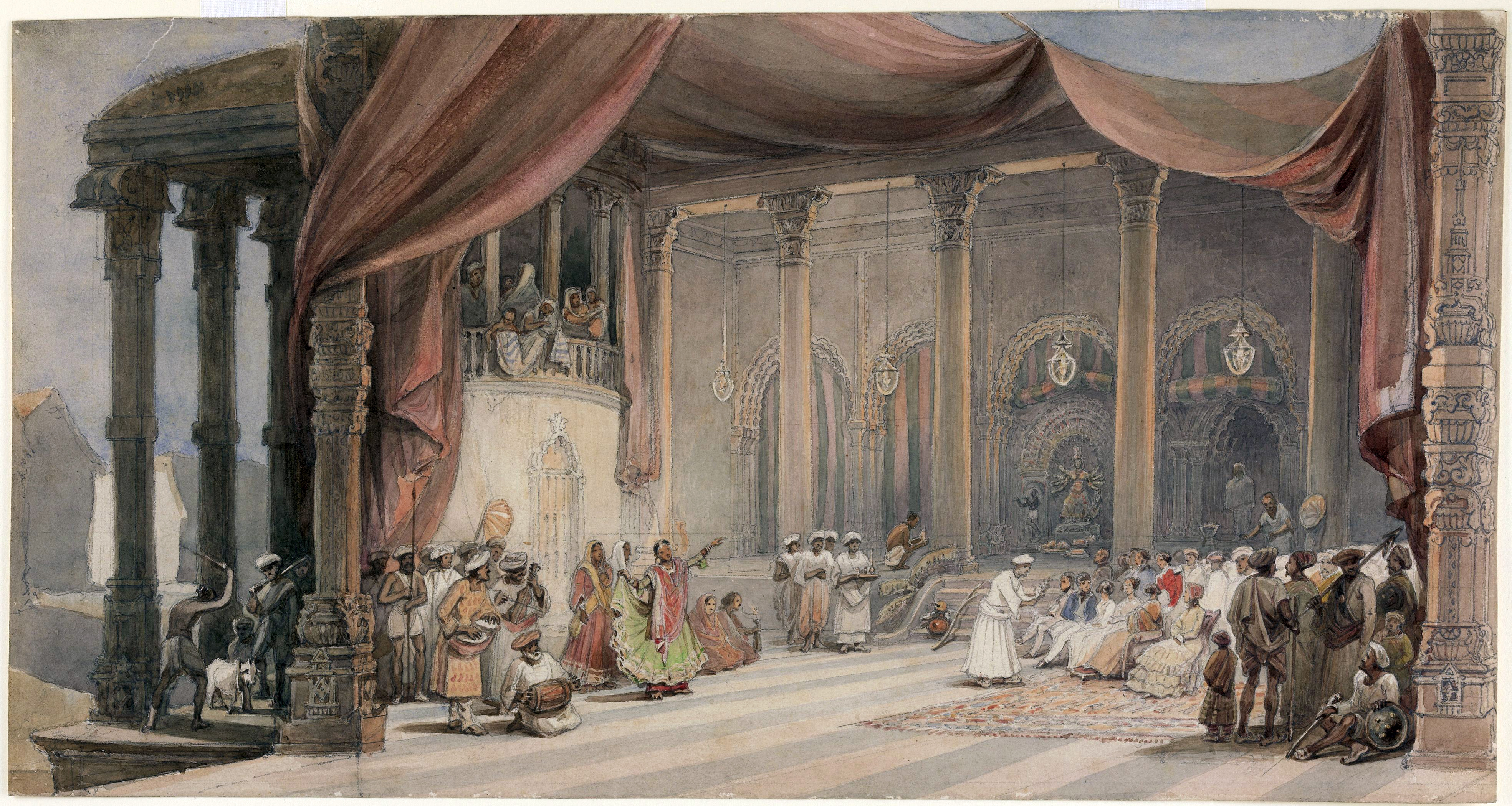 A depiction of celebrations inside a house during Durga Puja in Calcutta, West Bengal, India, where Europeans are being entertained. The artist Prinsep was a merchant with the Calcutta firm of Palmer & Company.